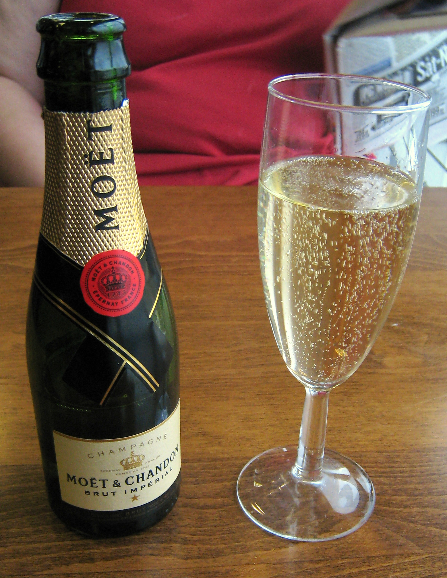 Moet champagne and glass.